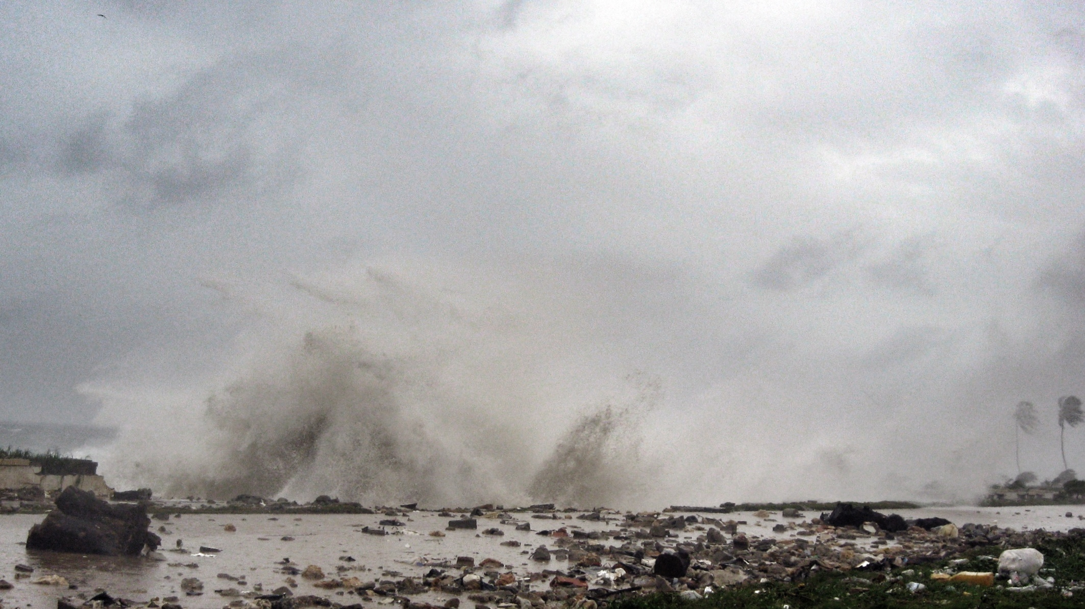 On Friday, 24 August, waves from Tropical Storm Isaac were battering the coast of the Dominican Republic, exact location unknown